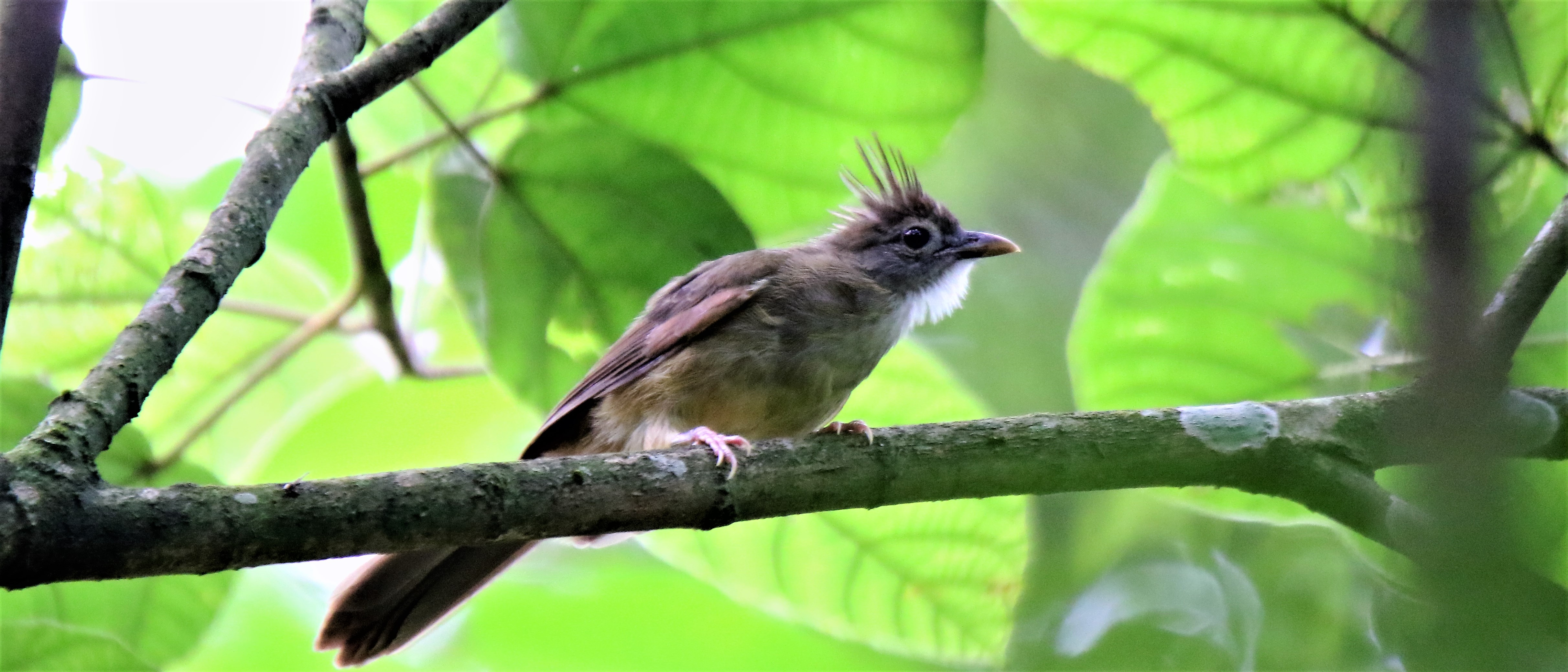 Puff-throated Bulbul